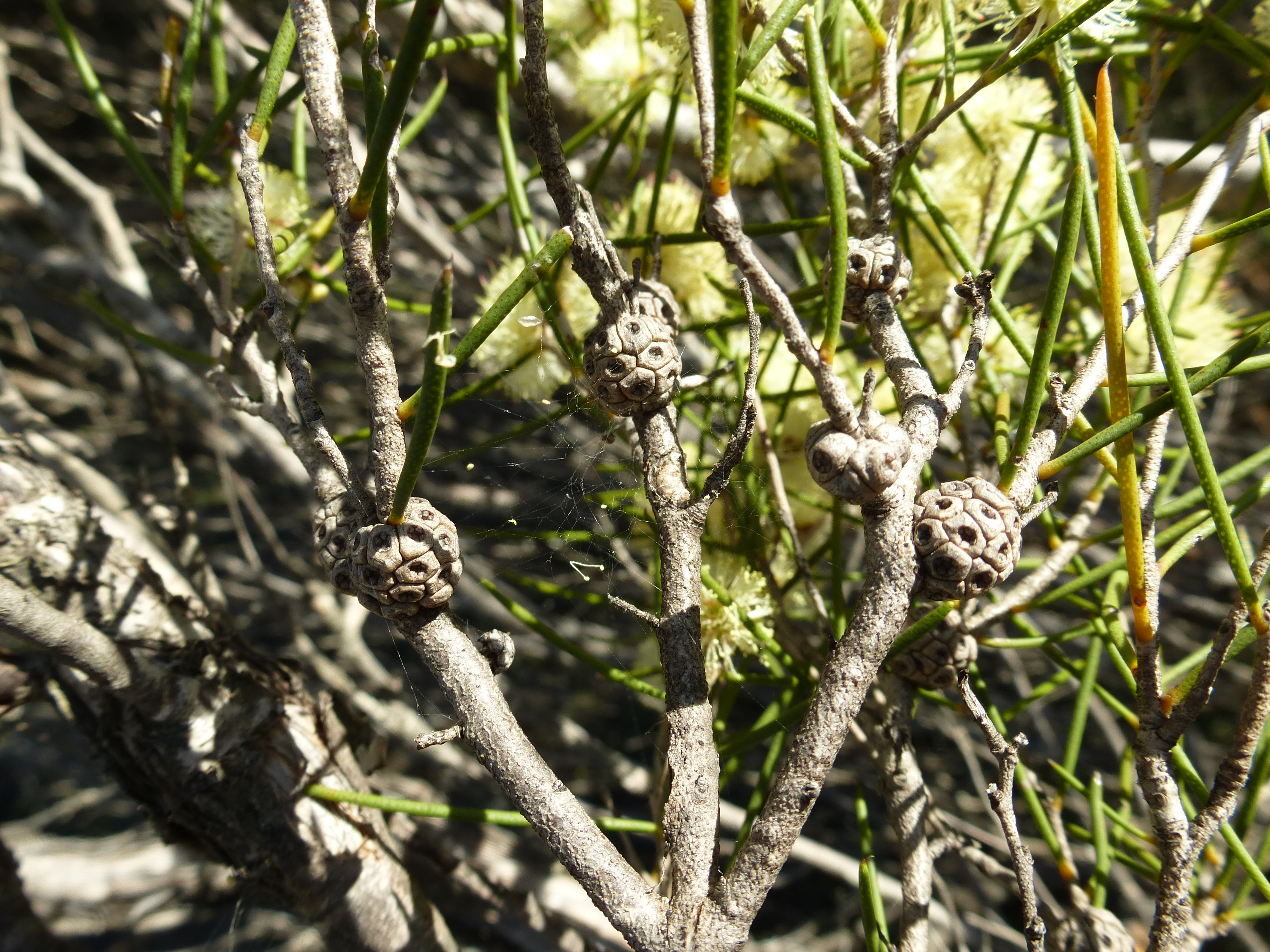 Melaleuca concreta growing along White Peak Road near Geraldton